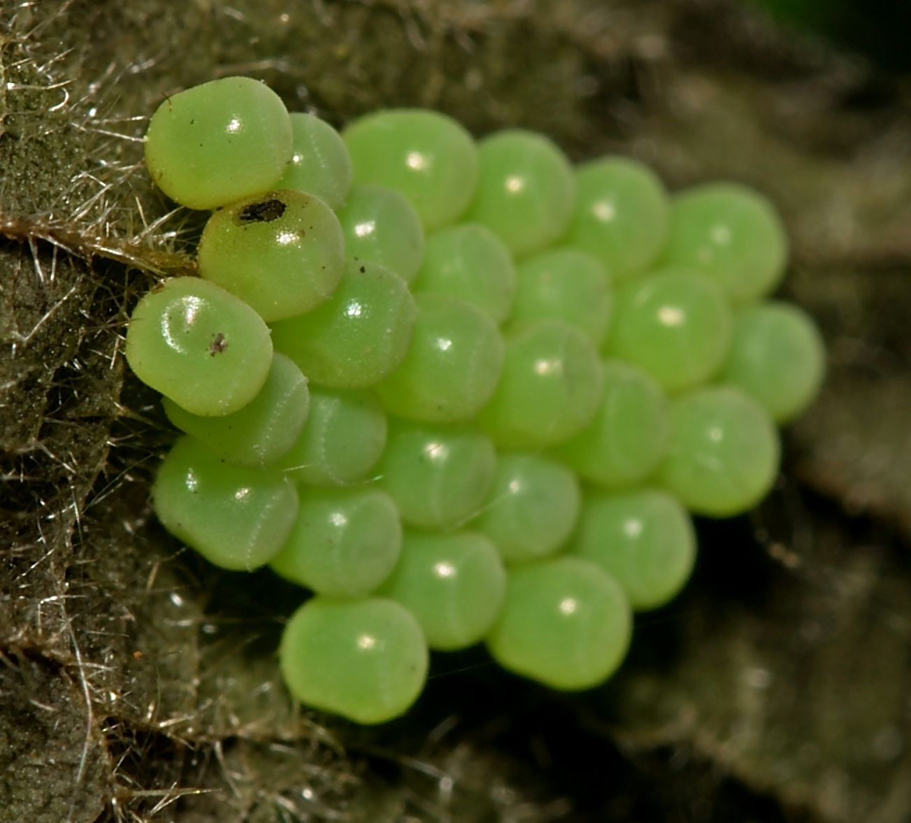 Eggs from Palomena prasina (also other similar species is not ruled out), from Königsforst near Cologne, Germany.